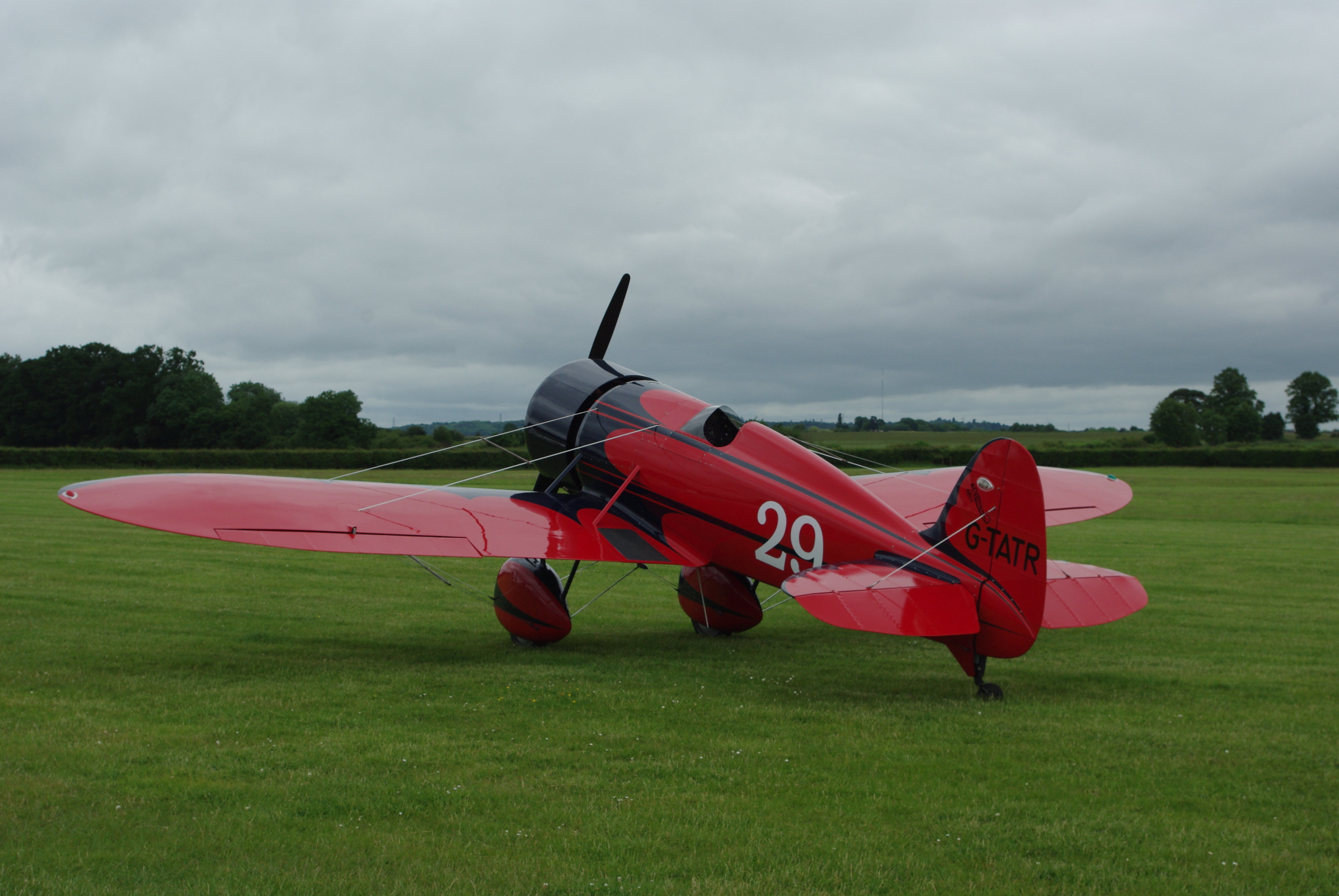 Travel Air (Curtiss-Wright) Type R Mystery Ship G-TATR at Old Warden, June 2014